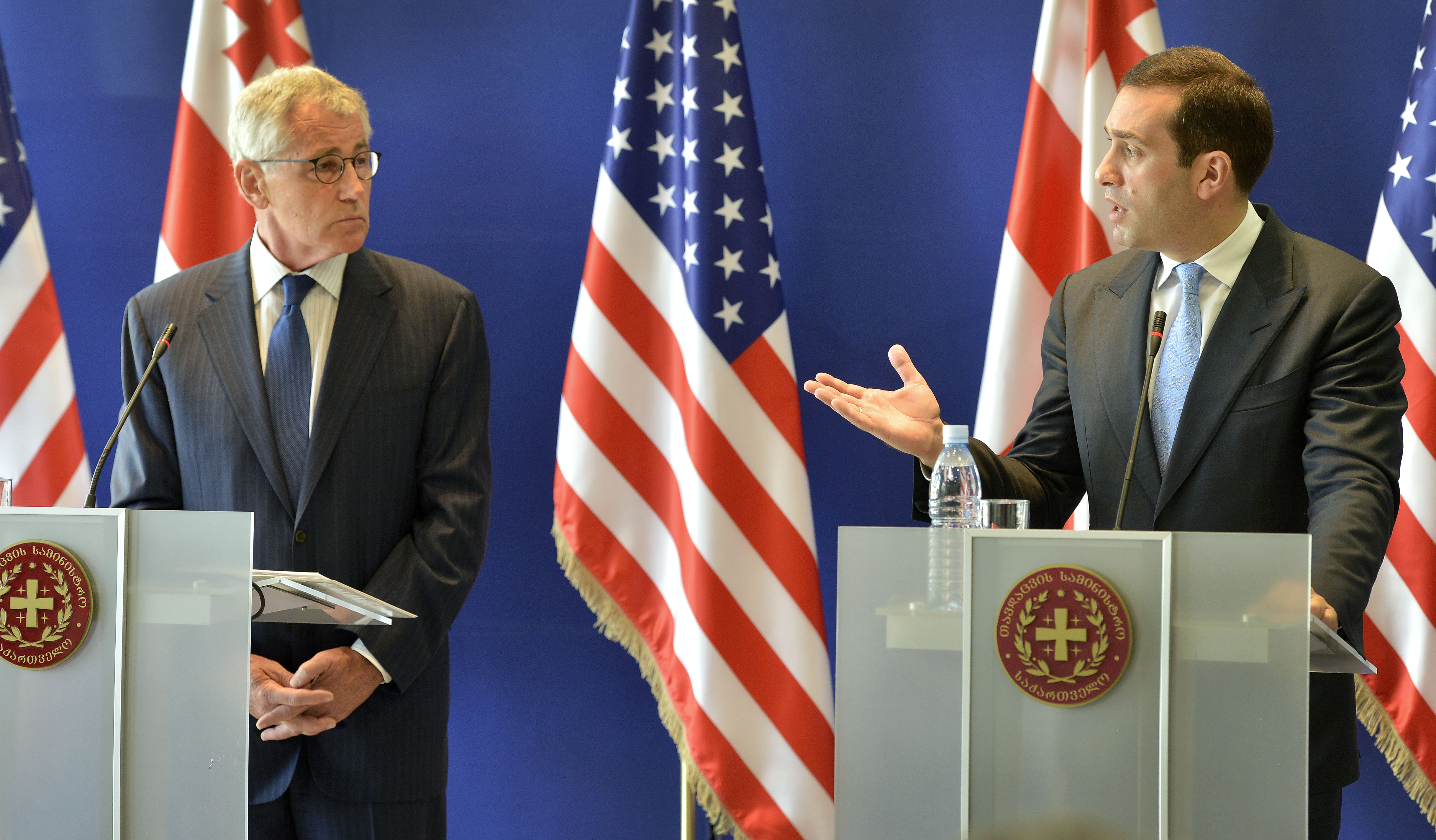 Secretary of Defense Chuck Hagel and Georgian Minister of Defense Irakli Alasania hold a joint press conference at the Georgian Ministry of Defense in Tbilisi, Georgia, September 7, 2014. Hagel and Irakli gave remarks emphasizing the importance of the relationship of their two nations and answered questions from an international pool of reporters. DoD Photo by Glenn Fawcett (Released)